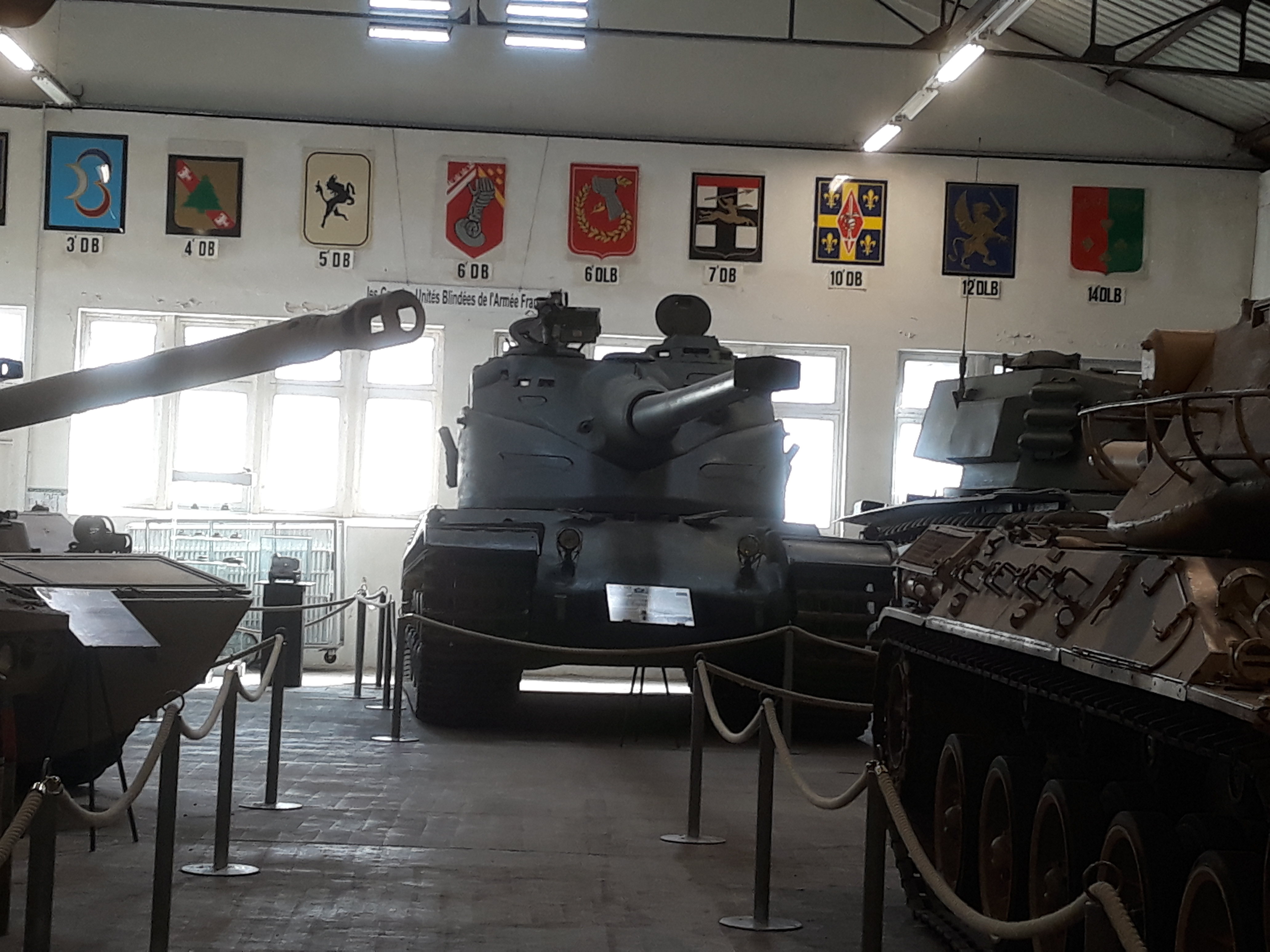 Amx 50